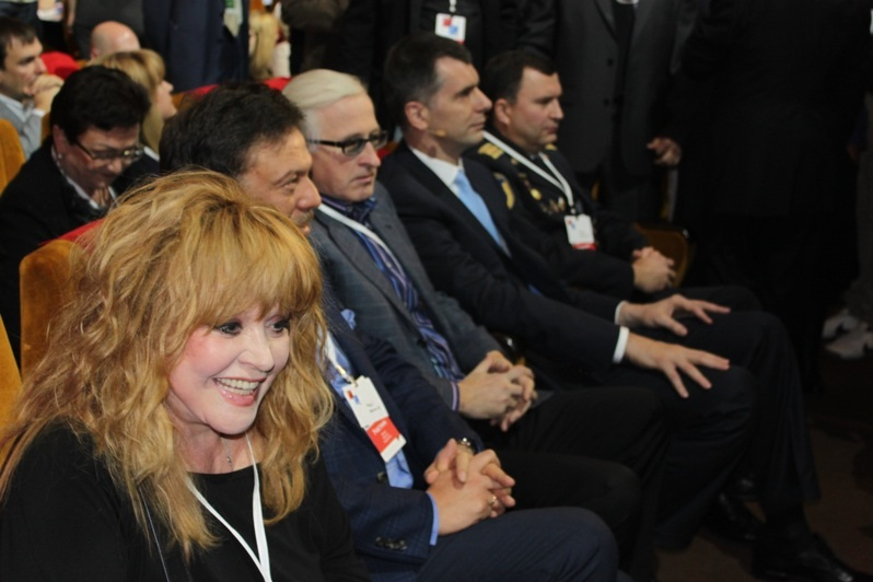 2 Congress of the Party of Civic Platform (Russia). Members of the Central Committee of the party: Alla Pugacheva, Mihail Barshcheuski, Alexander Pochinok, the party leader, Mikhail Prokhorov